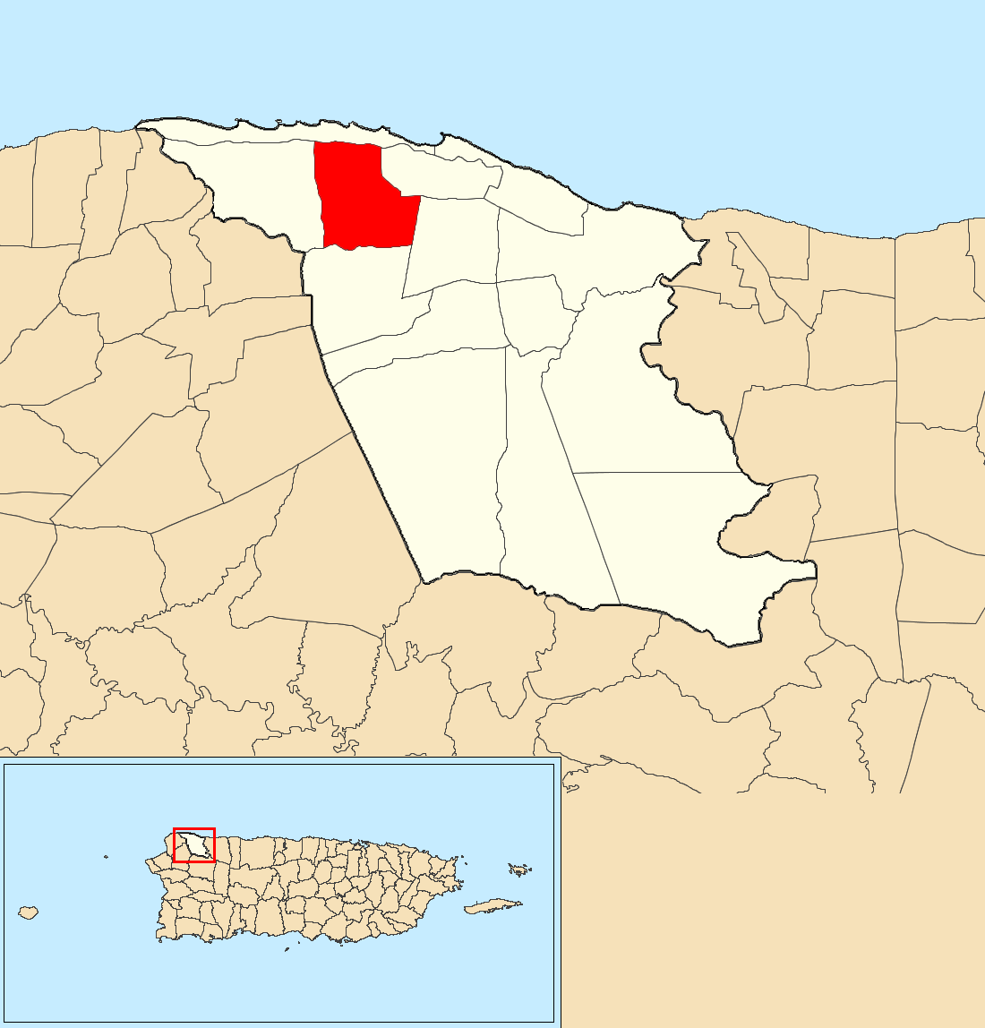 Bejucos, Isabela, Puerto Rico locator map